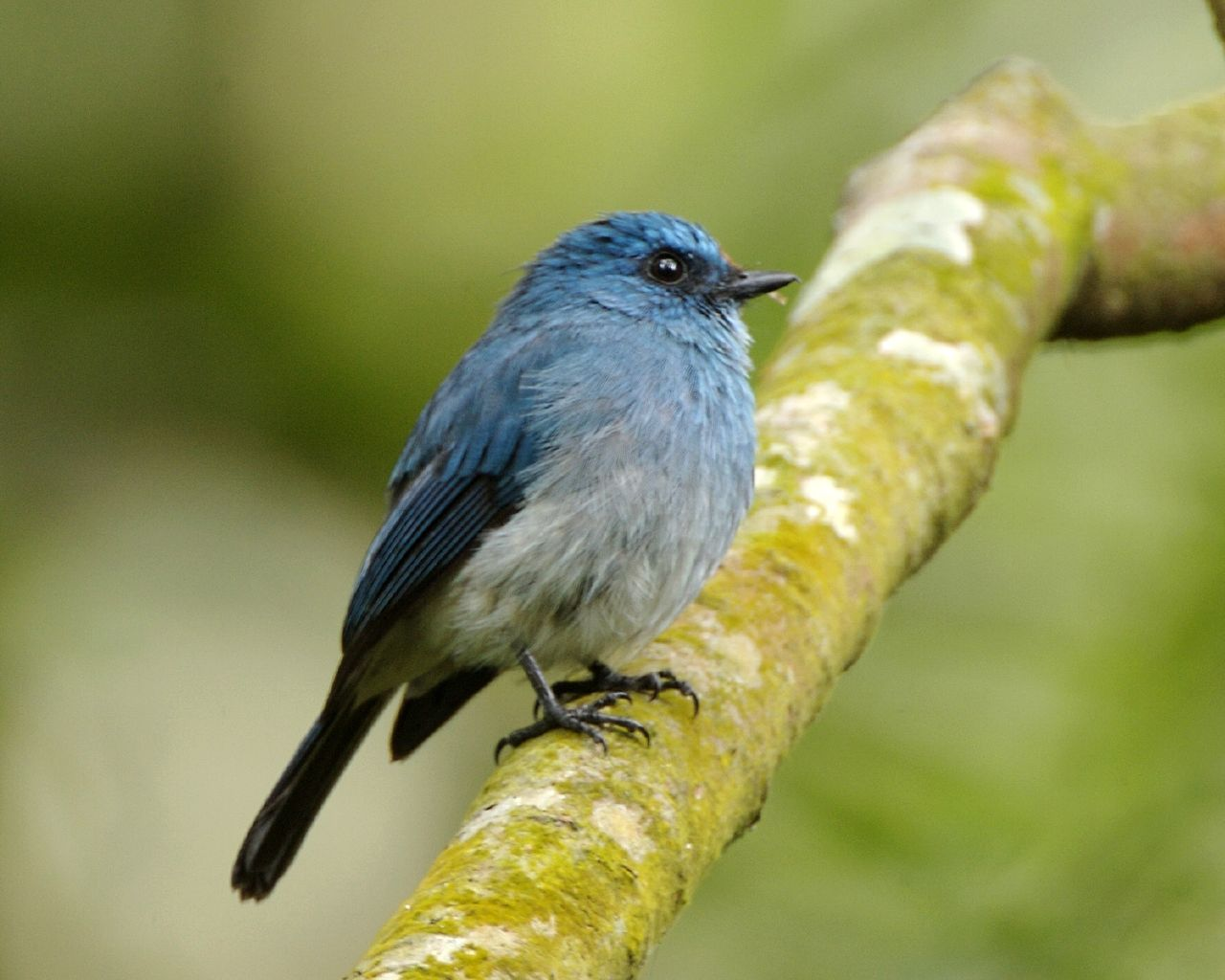 Indigo Flycatcher (Eumyias indigo) Local name, Indonesian: Ninon-ninon gunung 10th. August 2007 Location : Gunong Gede, Java, Indonesia